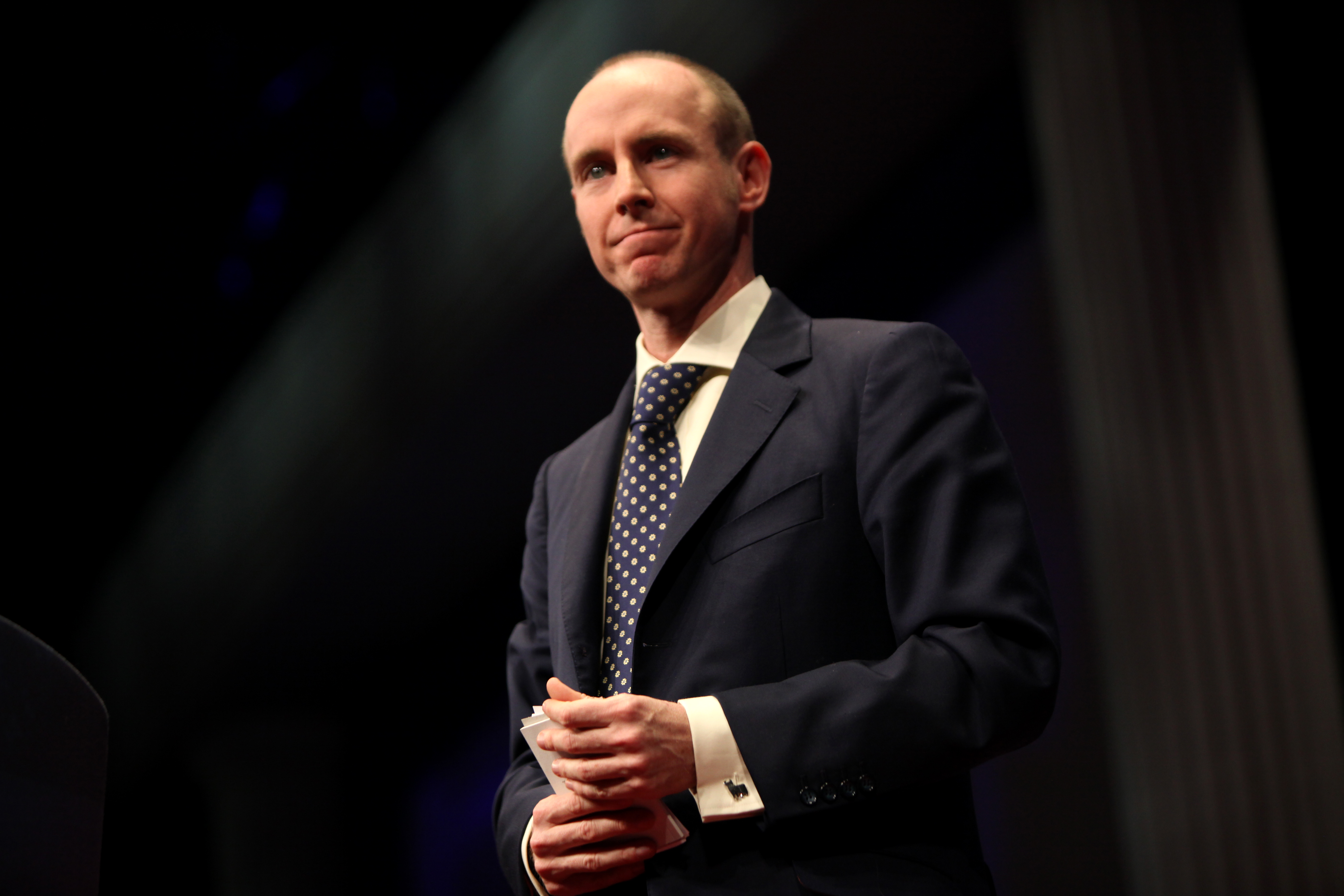 MEP Daniel Hannan speaking at the 2012 CPAC in Washington, D.C.